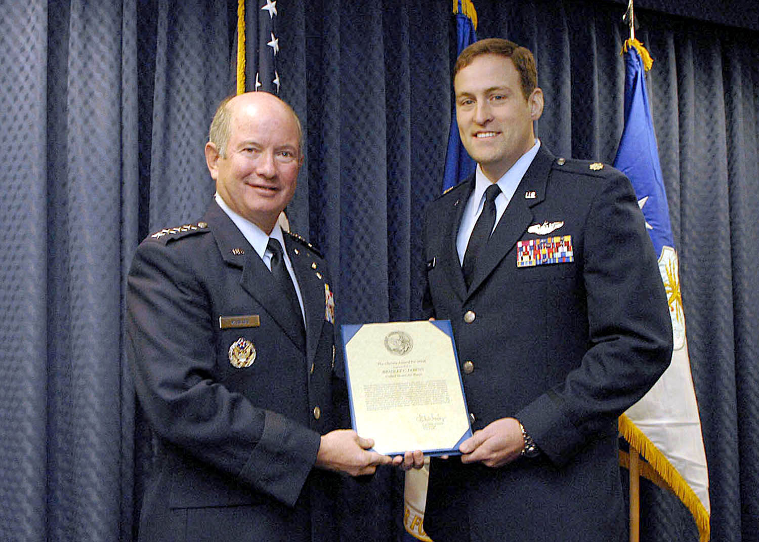 Air Force Vice Chief of Staff Gen. Duncan J. McNabb presents Maj. Bradley Downs the Cheney Award for his actions in southern Afghanistan. The Cheney Award is presented each year in memory of 1st Lt. William Cheney, who was killed in an air collision over Italy in 1918. Major Downs is an MC-130H Combat Talon II pilot.